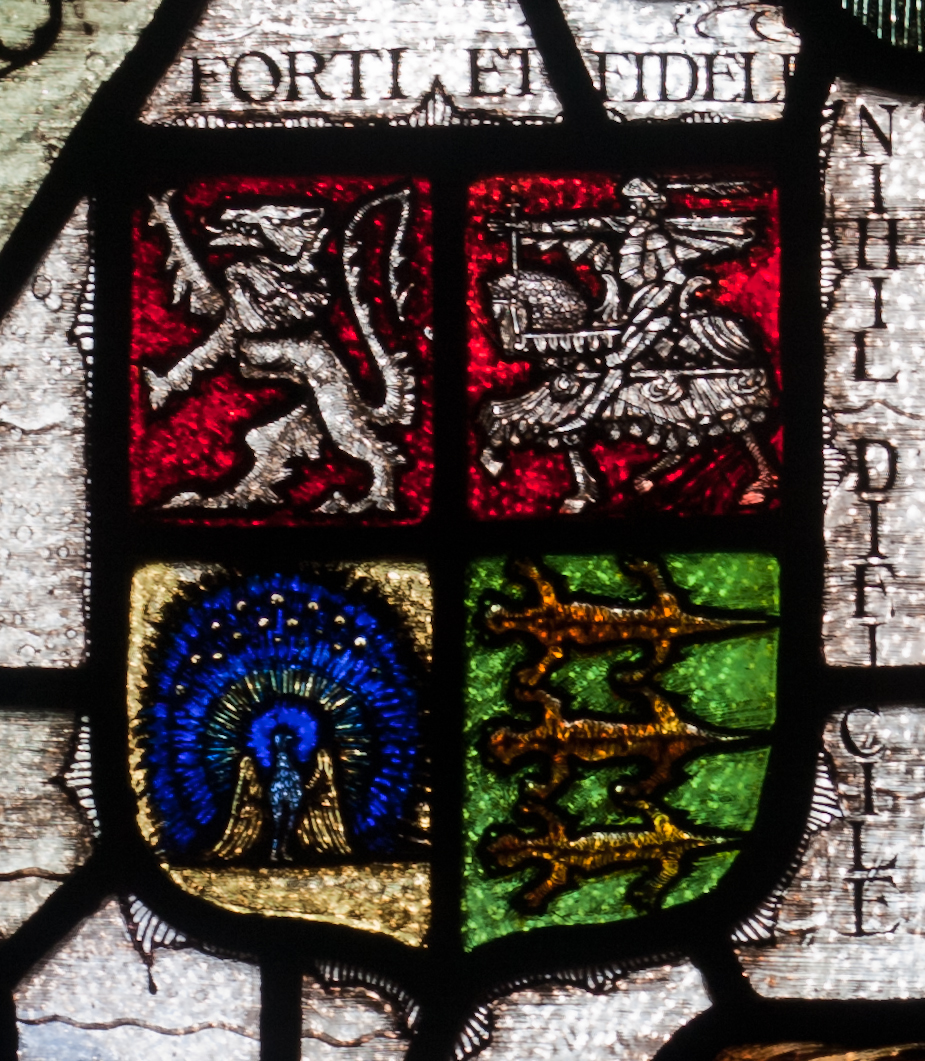 Detail of the left light of the stained glass window titled The Madonna with Sts Aidan and Adrian by Harry Clarke (1889–1931), depicting the coat of arms of the O'Keefe family and the motto Forti et Fideli nihil difficile. The blazon is given as follows [1]: quarterly of four: 1. Azure, a lion rampant or, for O’Keeffe, 2. Sable, an armed knight proper, on a grey horse, ground vert, 3. or, a peacock in its pride proper, 4. vert, three lizards in pale or, impaling or a chevron ermine, between three trefoils slipped proper. Harry Clarke (1889–1931) Alternative names Henry Patrick ClarkeDescriptionBritish artistDate of birth/death 17 March 1889 6 January 1931 Location of birth/death Dublin ChurAuthority control : Q981851 VIAF: 64809213 ISNI: 0000 0000 7729 3084 ULAN: 500005071 LCCN: n80127749 NLA: 35207551 WorldCat creator QS:P170,Q981851